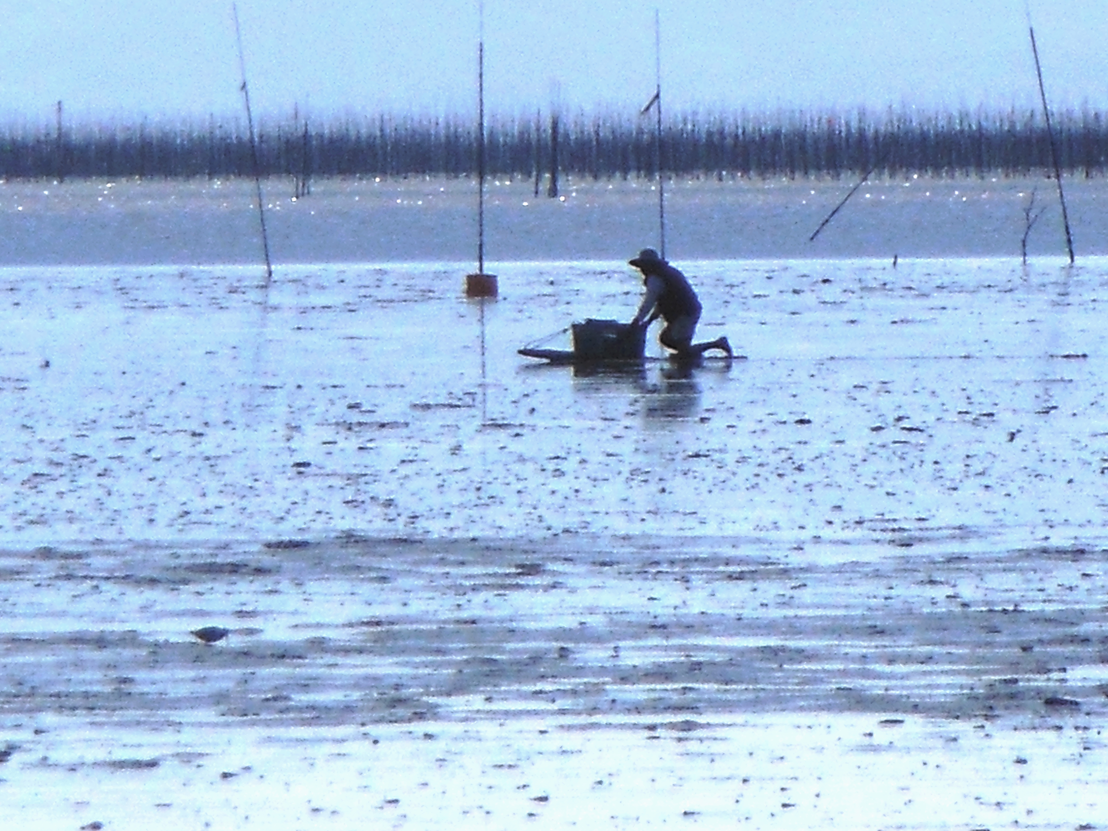 Fisherman rowing board("Oshiita"or"Gata-ski") on mudflat of Ariake Sea. Offshore of Higashiyoka, Saga city, Japan.